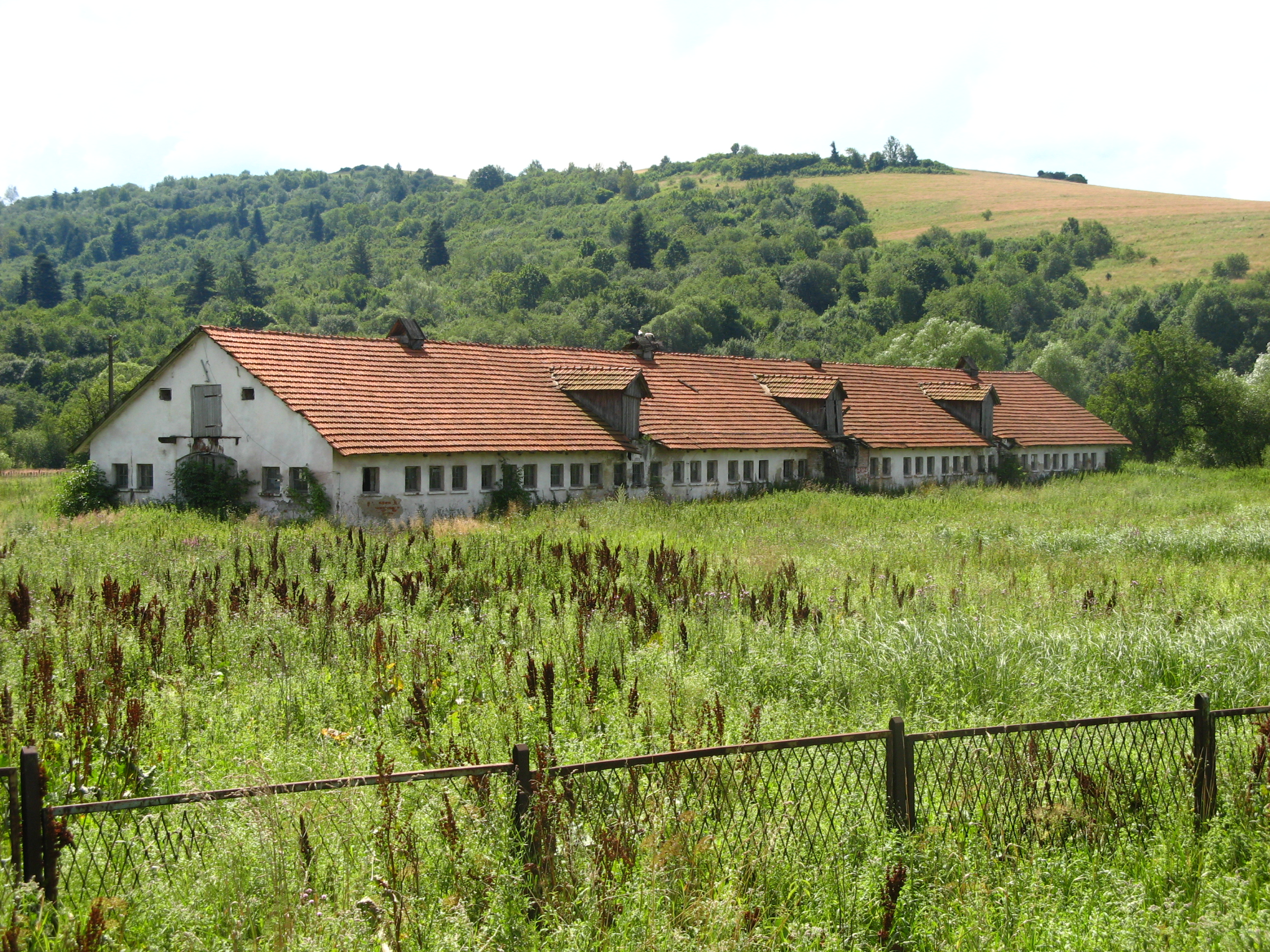 PGR Krościenko, Poland